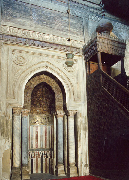 Ibn Tulun mosque. Cairo, Egypt